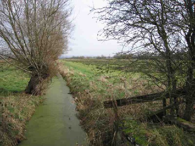 East Backwater Rhyne, Somerset site of the Glastonbury Lake Village